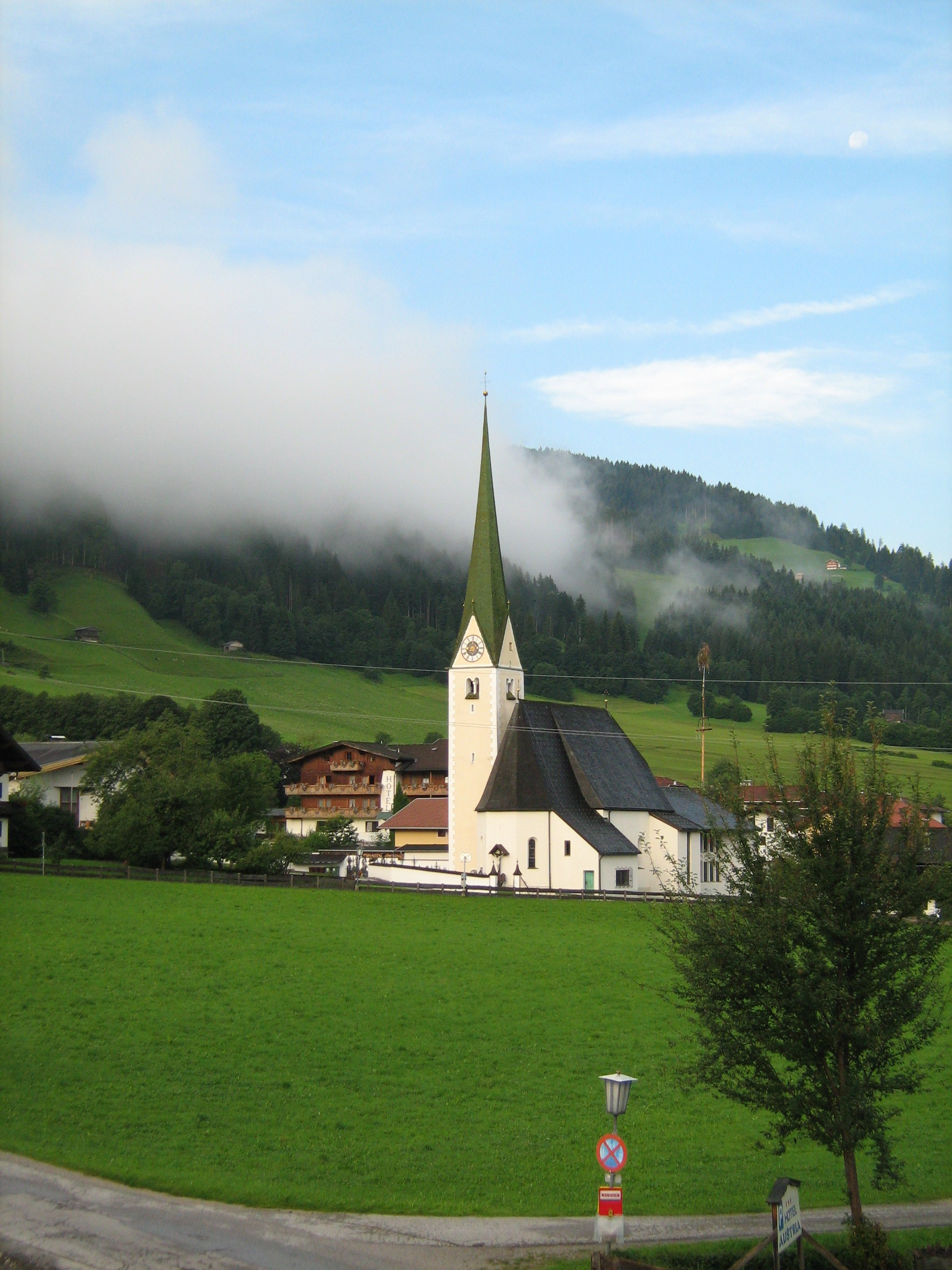 The church on the main street in Niederau, Wildschönau, Austria. August 2012.